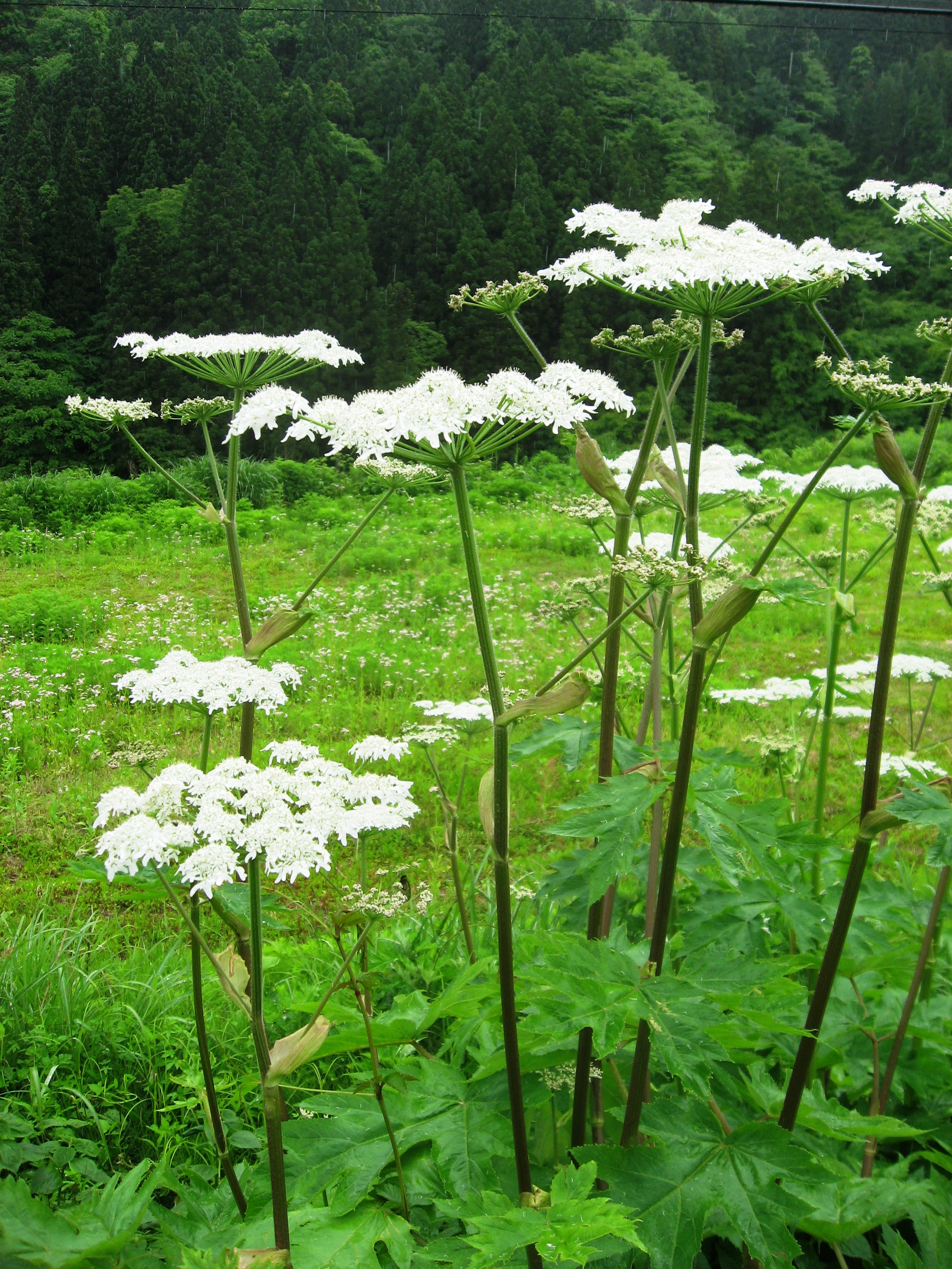 Heracleum lanatum, Aizu area, Fukushima pref., Japan